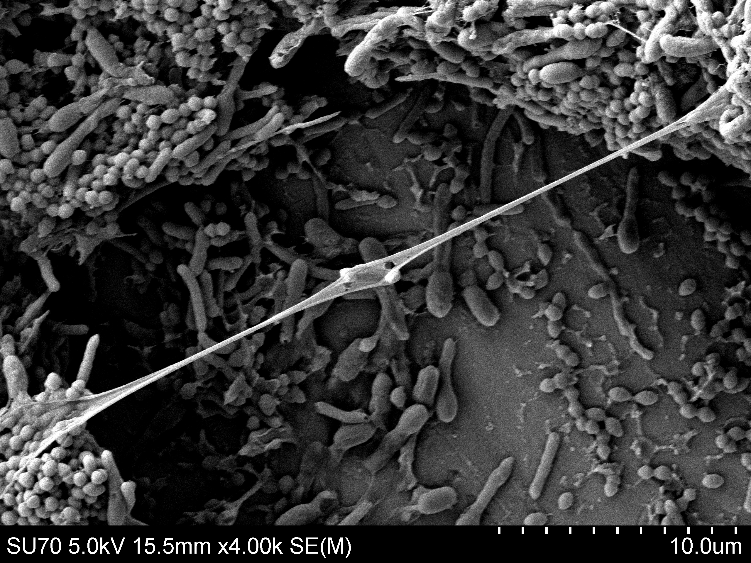 Scanning electron micrograph of mixed-culture biofilm, demonstrating in detail a spatially heterogeneous arrangement of bacterial cells and extracellular polymeric substances. The stainless steel (type 316) sample surface was incubated under high ﬂuid shear stress and continuous flow conditions in the CDC Biofilm Reactor at 50 °C for 22h with high-heat skimmed milk powder reconstituted and preheated to 72 °C. Cocci and bacilli could be observed, although a direct correlation between bacterial morphological differences and clinical/radiographic findings was not established by means of SEM evaluation.